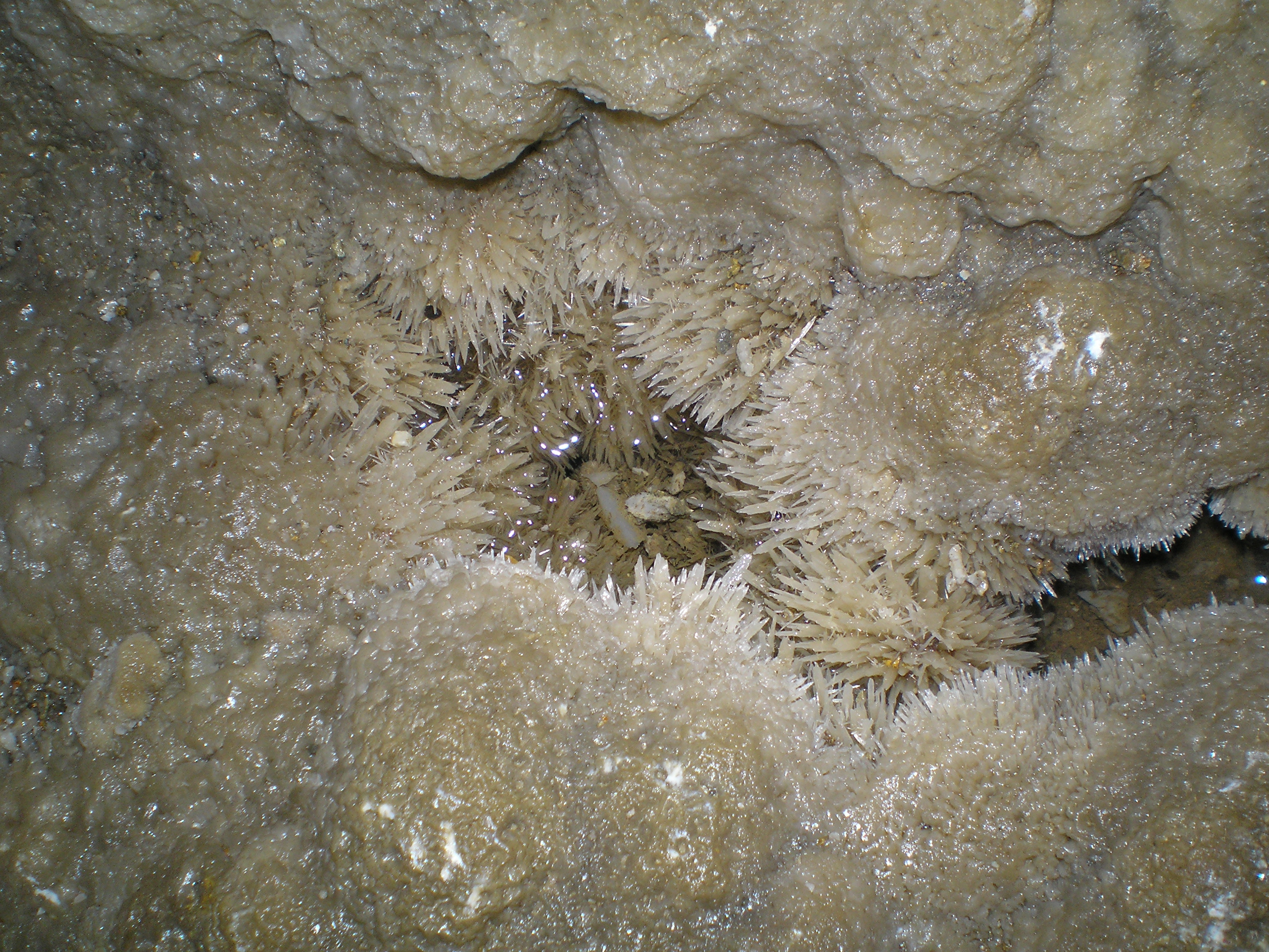 Carbonic acid which is carrying minerals in the air can grow crystals on rock faces in which it regularly condenses.